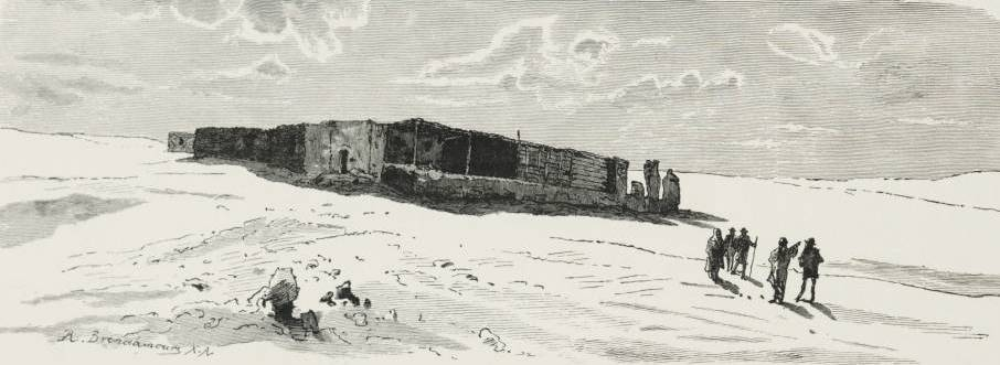 HOUSE OF MARIETTE PACHA AT SAKKARAH. A long, low building in the middle of the desert.